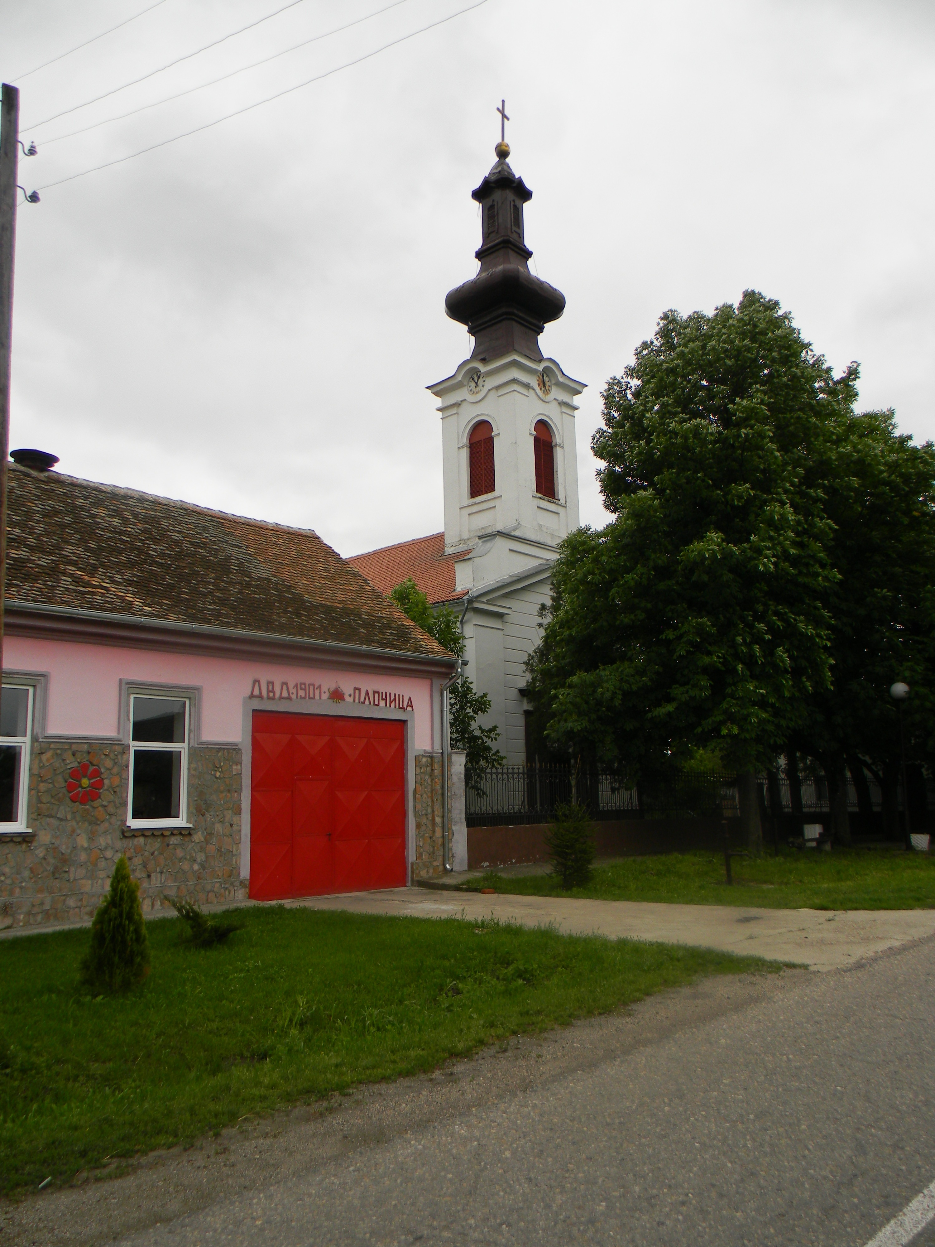 Ortodox Church in Pločica